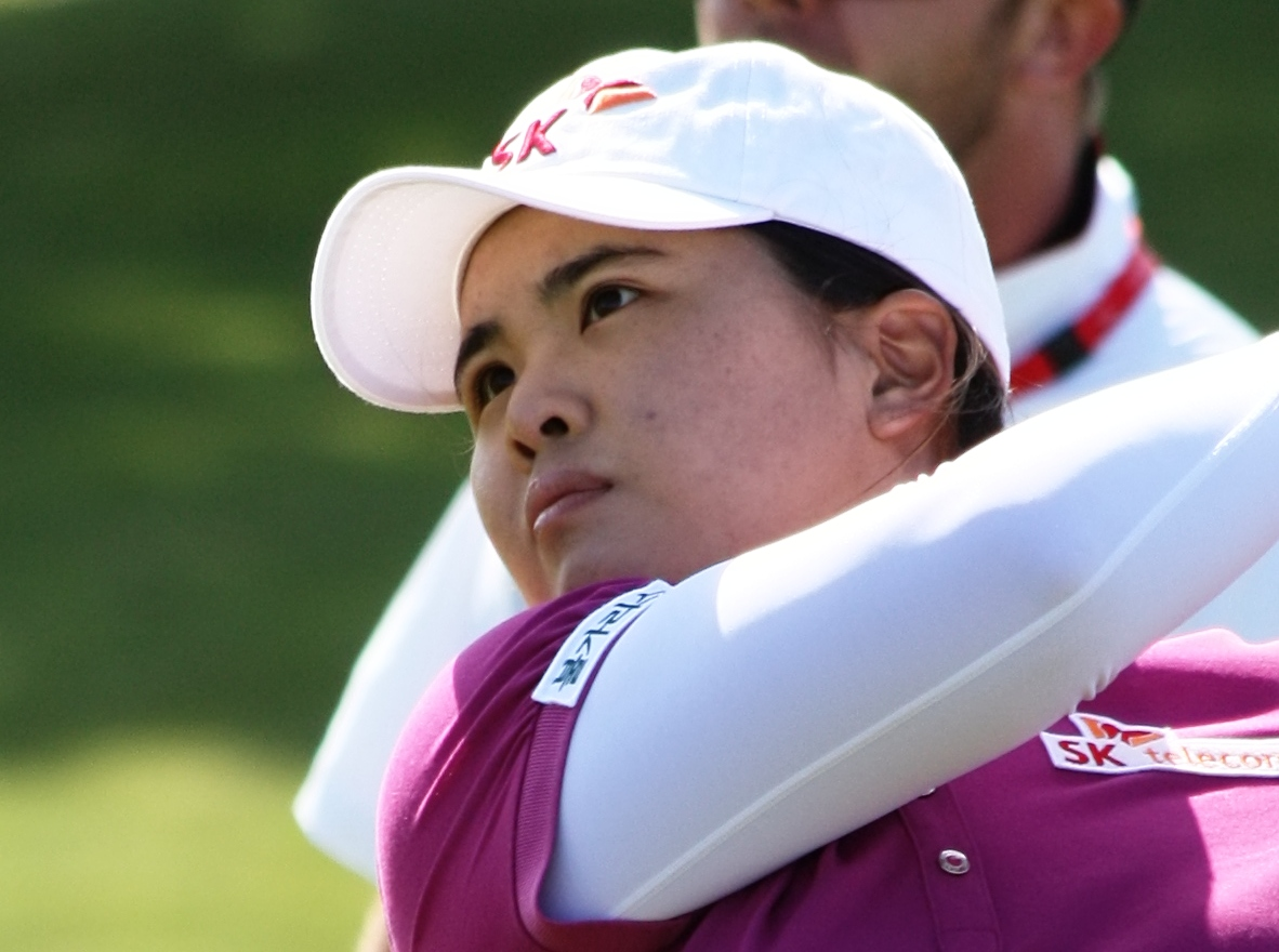 LYTHAM ST ANNES, UNITED KINGDOM - JULY 27: Inbee Park of South Korea on the 2nd fairway during first practice round before 2009 Ricoh Women's British Open held at Royal Lytham & St Annes on July 27, 2009 in Lytham St Annes, England. (Photo by Wojciech Migda)